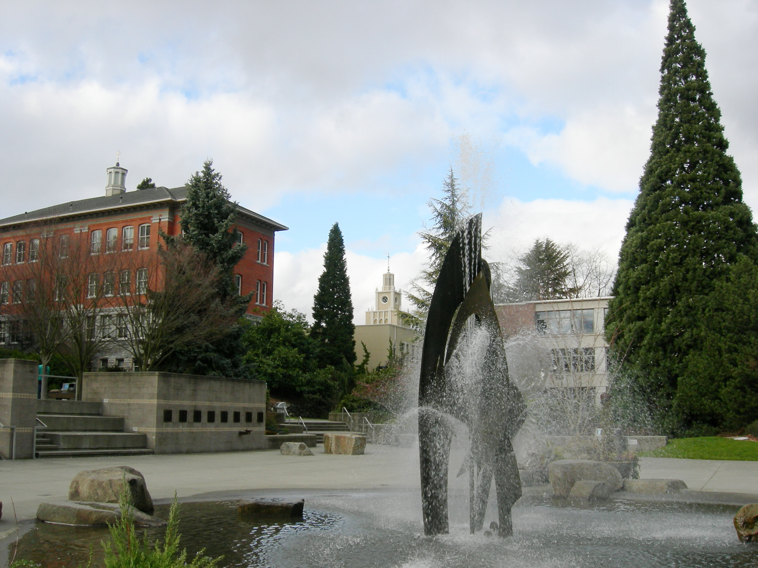 Centennial Fountain, Seattle University. From left to right in the background Garrand Hall (School of Nursing), Administration Building, Piggot Hall (Albers School of Business). The fountain was designed by Seattle artist George Tsutakawa.